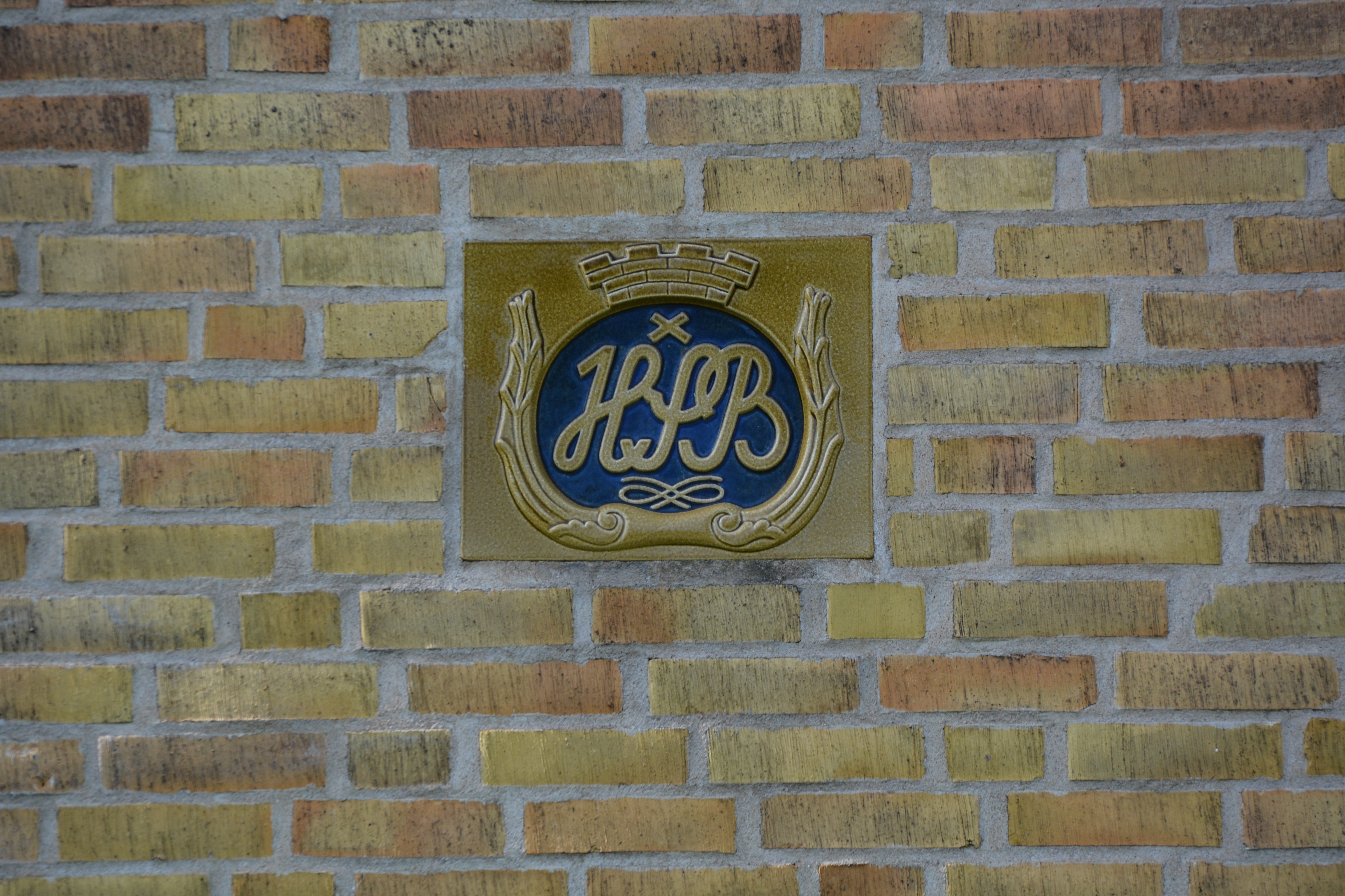 HSB-emblem inmurat i vägg av Lommategel, byggnad vid Vinstorpsvägen/Pilgatan i Lomma från 1950-tal eller tidigt 1960-tal.